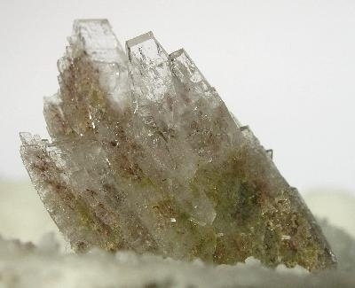 Yugawaralite Locality: Jalgaon District, Maharashtra, India (Locality at ) Size: 6.7 x 5.9 x 2.5 cm. A superb cluster of 1.6 cm blades of this very rare zeolite, with excellent luster and good gemminess near the terminations of each separate blade. This is an extremely rare zeolite.